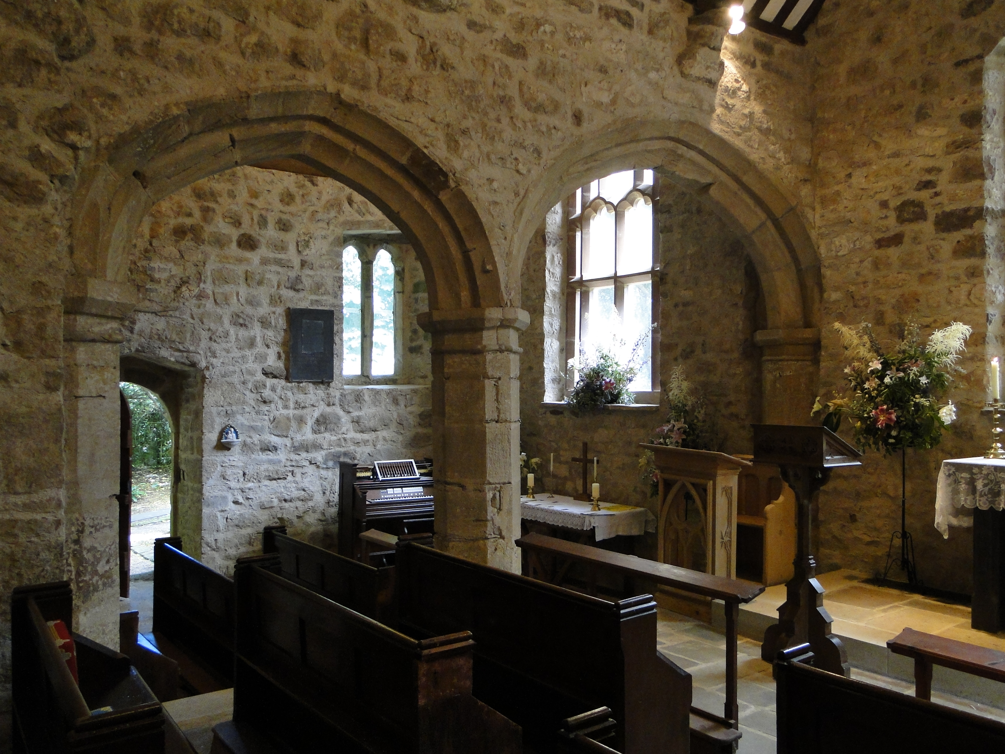 Interior shot of Llanidan old church